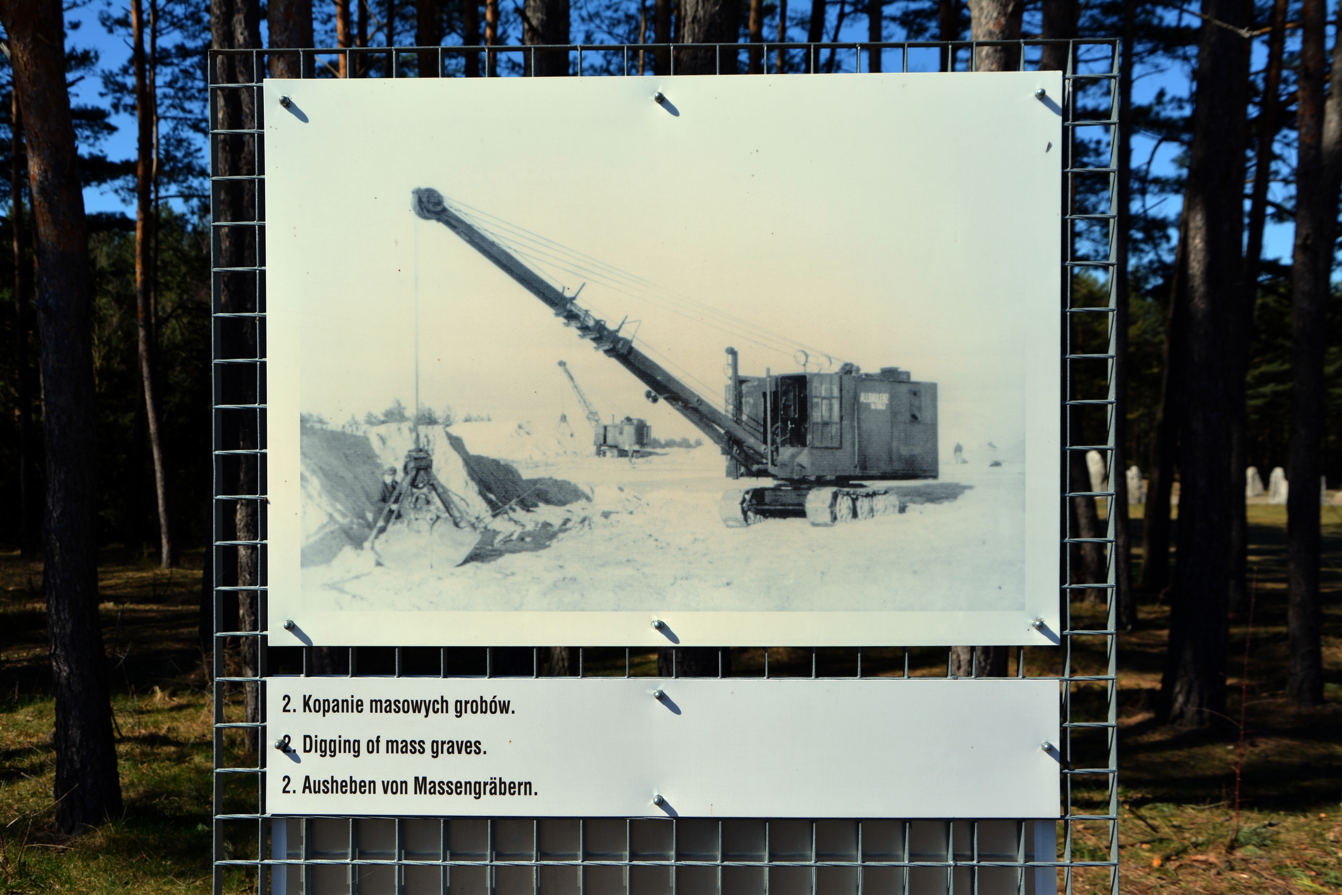 Treblinka. Digging of mass graves. Archival photo.